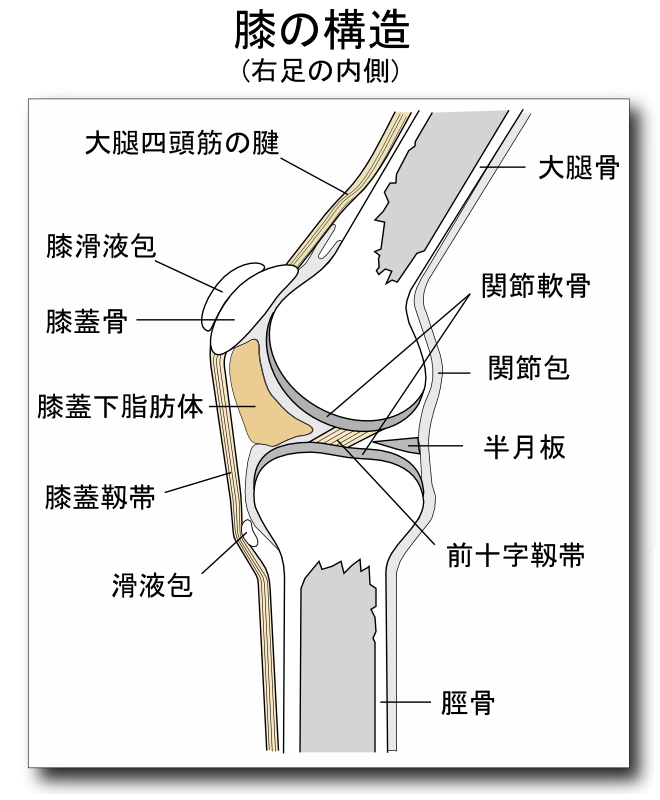 none